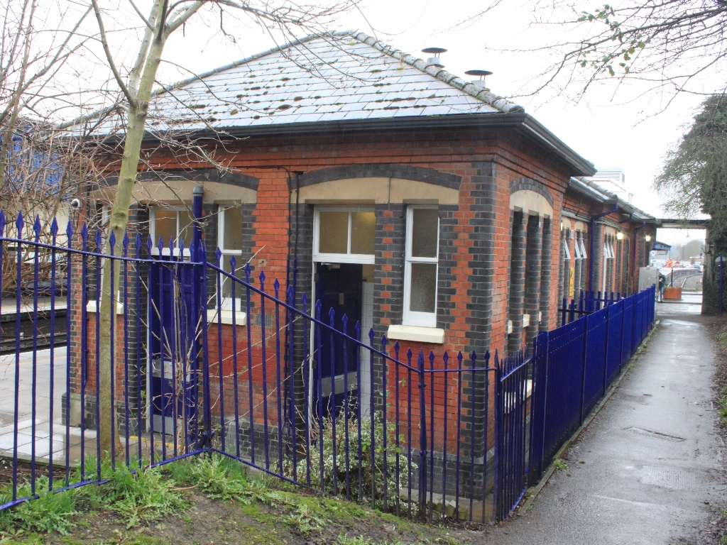 The main offices at Twyford station as seen from the east end.